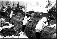 Infantry in trench line, Karelian Isthmus - Mannerheim Line